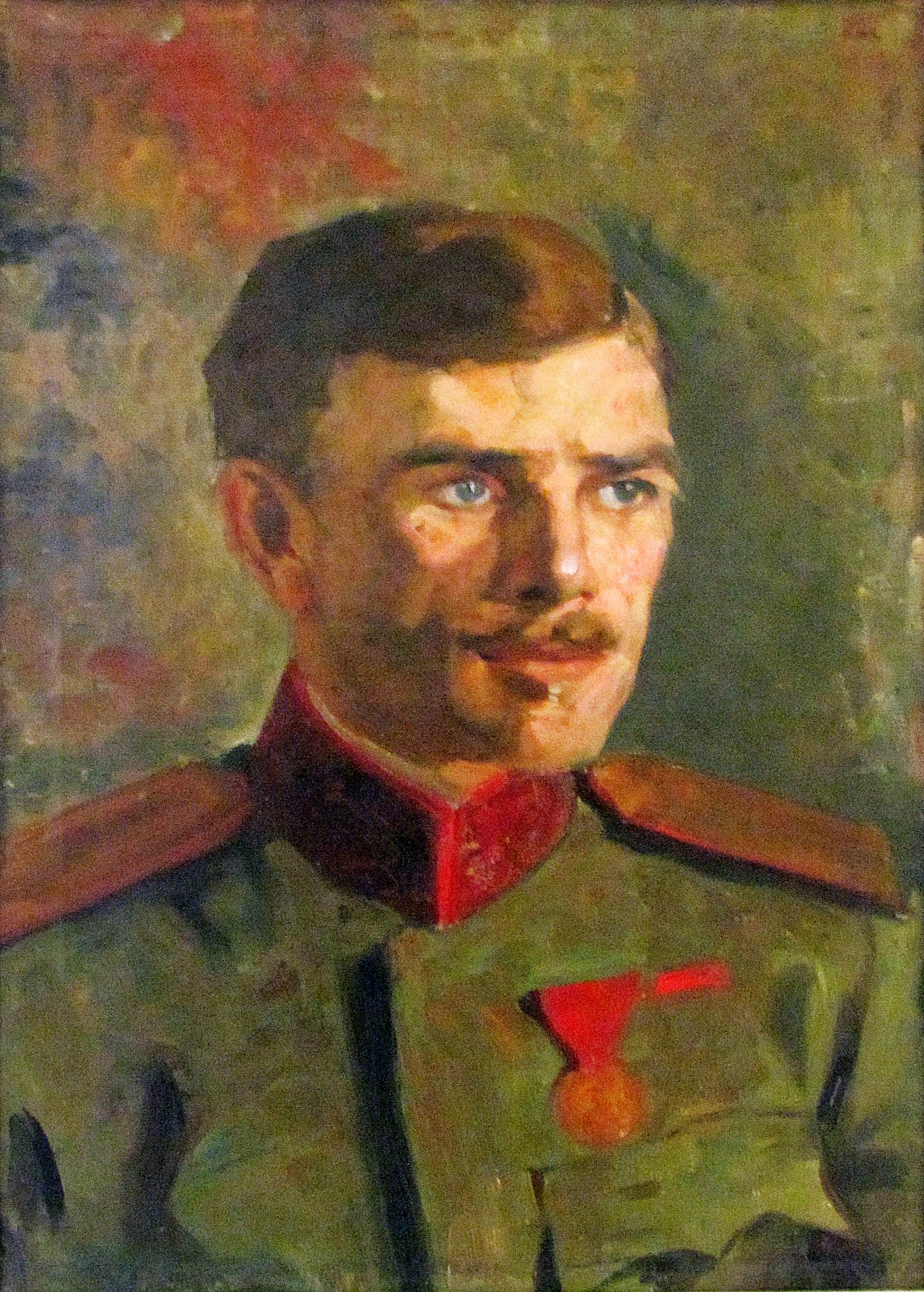 Kosta Josipovic (1887-1919) Serbian painter (self portrait)